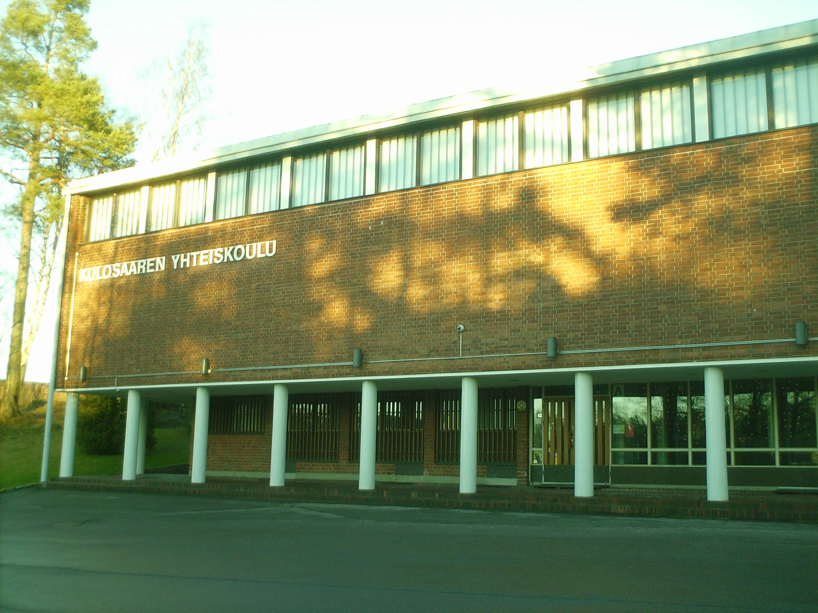 Photograph of Kulosaaren yhteiskoulu, Helsinki.